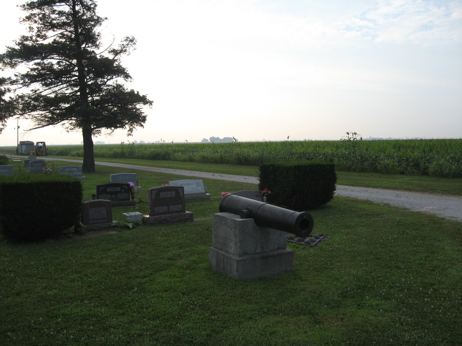 Civil war memorial at Arcola Township Cemetery, August 2009